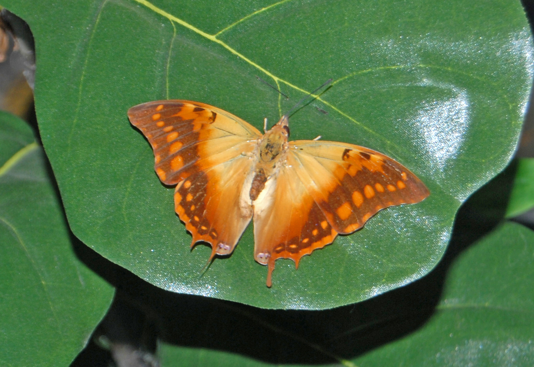 "Charaxes candiope", on display at the Museo Civico di Storia Naturale di Milano